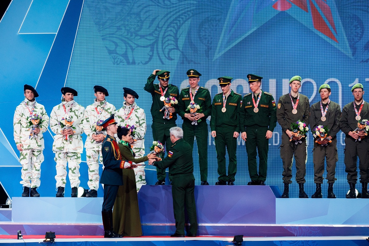 Awards ceremony in patrol race at the 2017 Winter Military World Games in Sochi. First place - Russia; second - France; third - Austria.